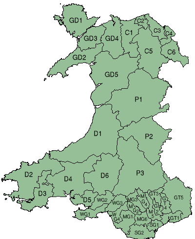 Numbered (well, coded) districts of Wales. Based on one of User:Keith_Edkins's maps originally.